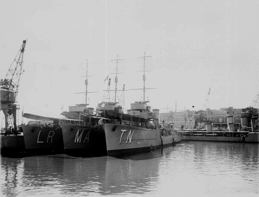 Argentine destroyers "Tucumán", "Mendosa" y "La Rioja".